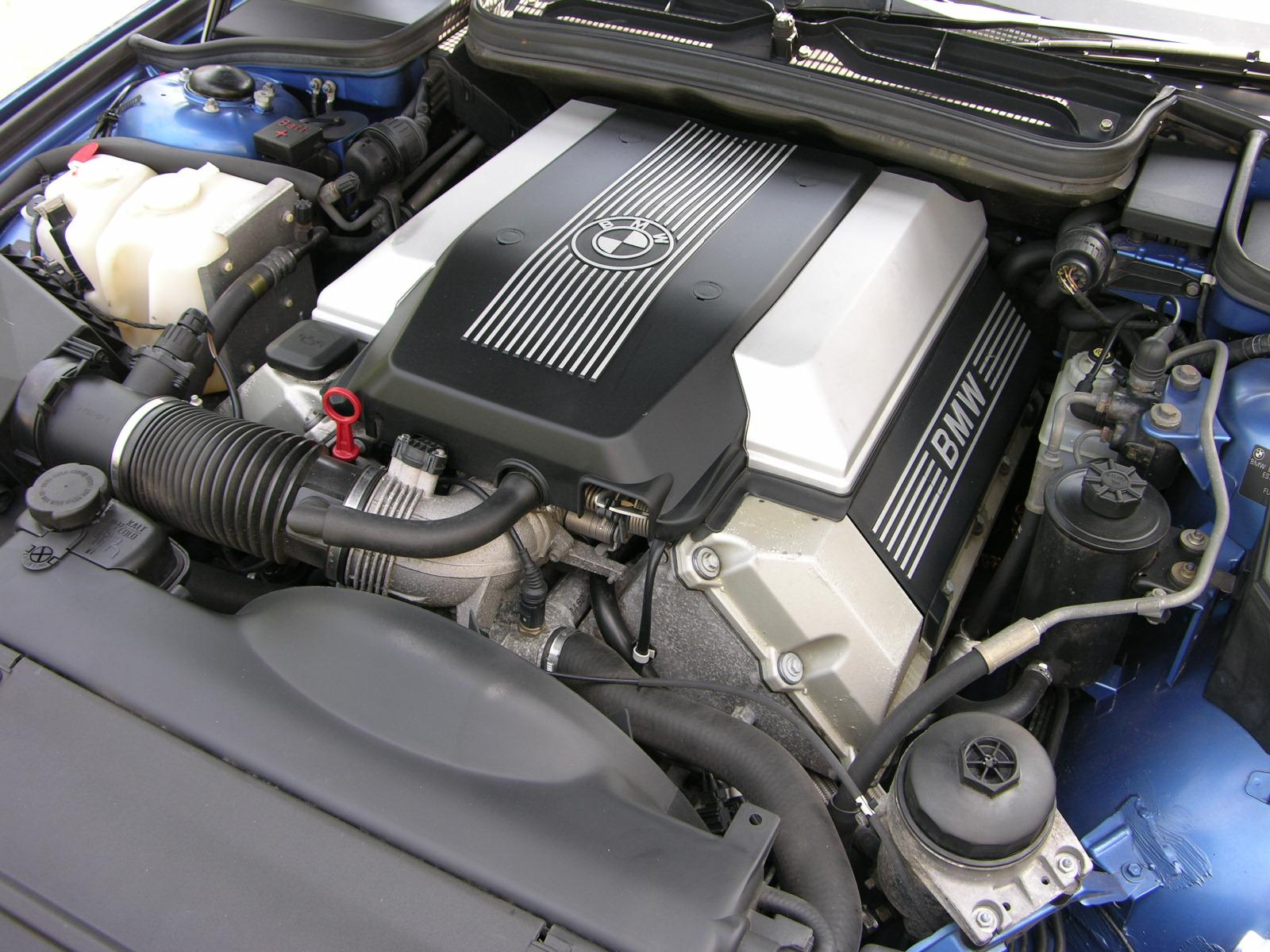 BMW E31 840Ci Sport equipped with M62 V8 engine.